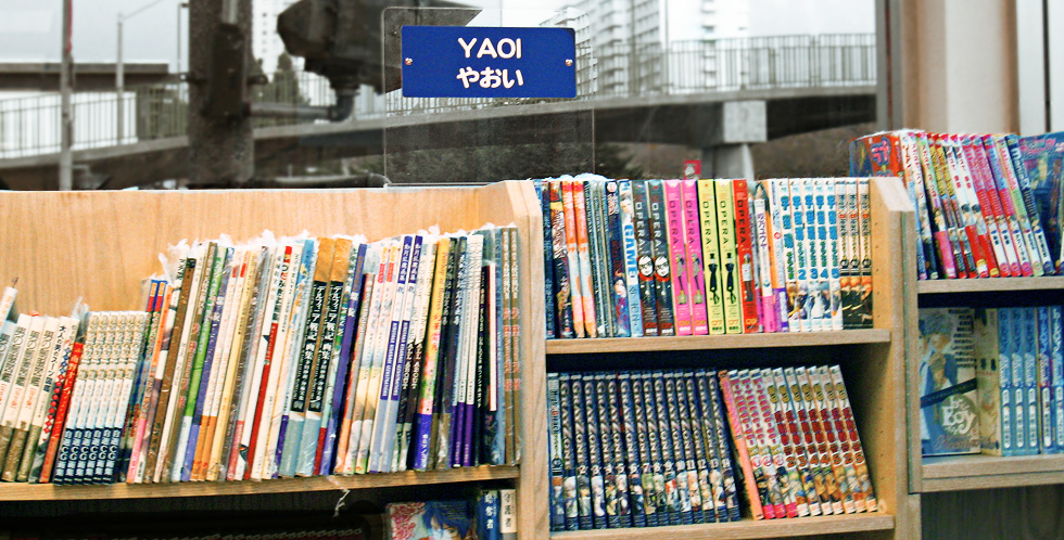 Yaoi manga in the Kinokuniya Bookstore in Japantown, San Francisco.